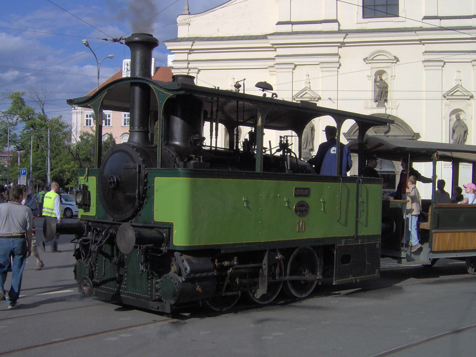 Steam tram locomotive No. 10 "Caroline" in Brno, Czech Republic